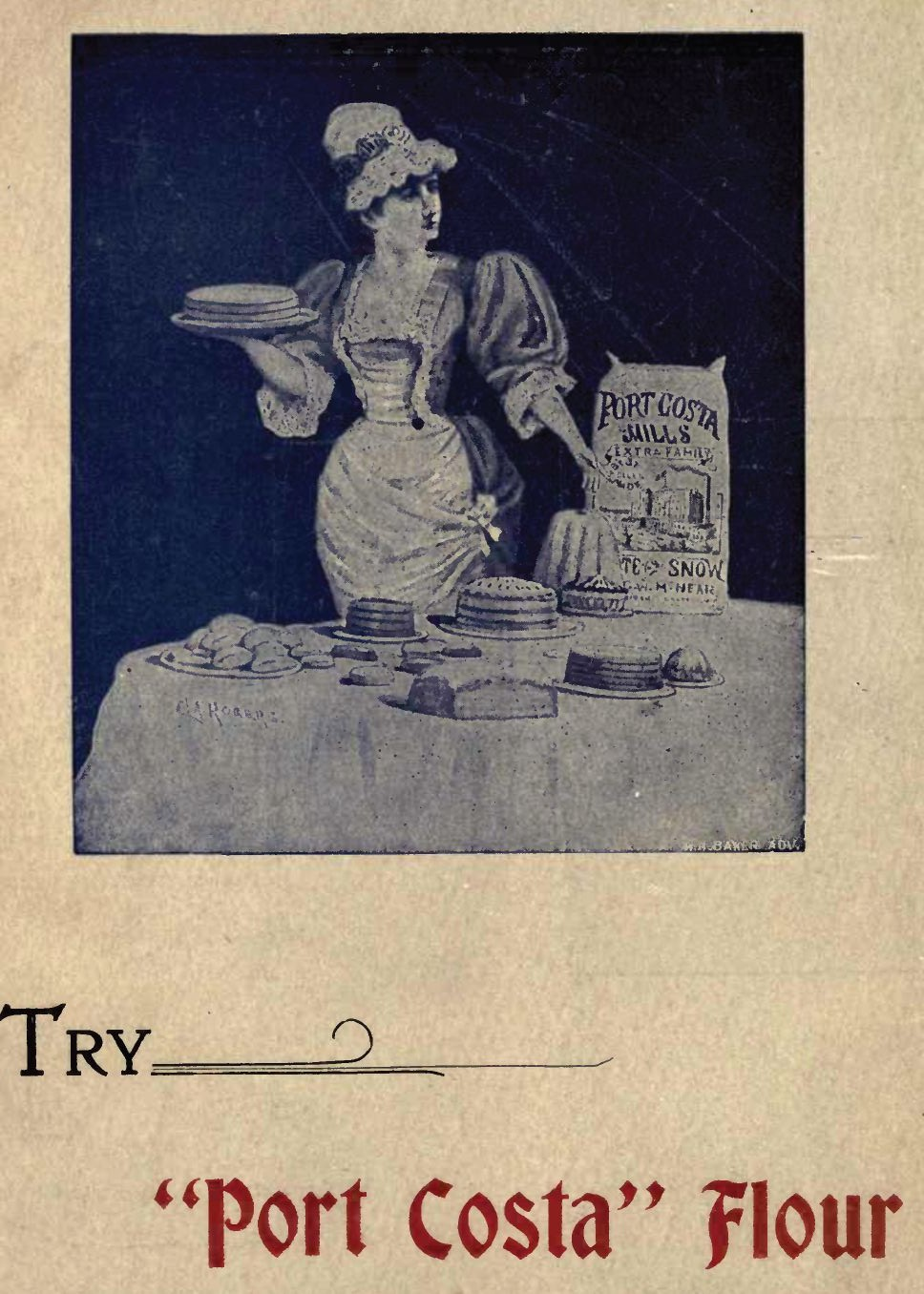 Port Costa Flour Mills Advertisement from Illustrated Roster of California Volunteer Soliders in the War with Spain (1898)